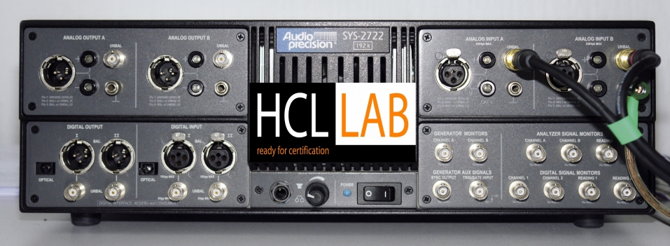 Audio Precision SYS-2722-A-M See also: WHQL Testing